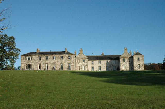 Hirsel House, Coldstream.